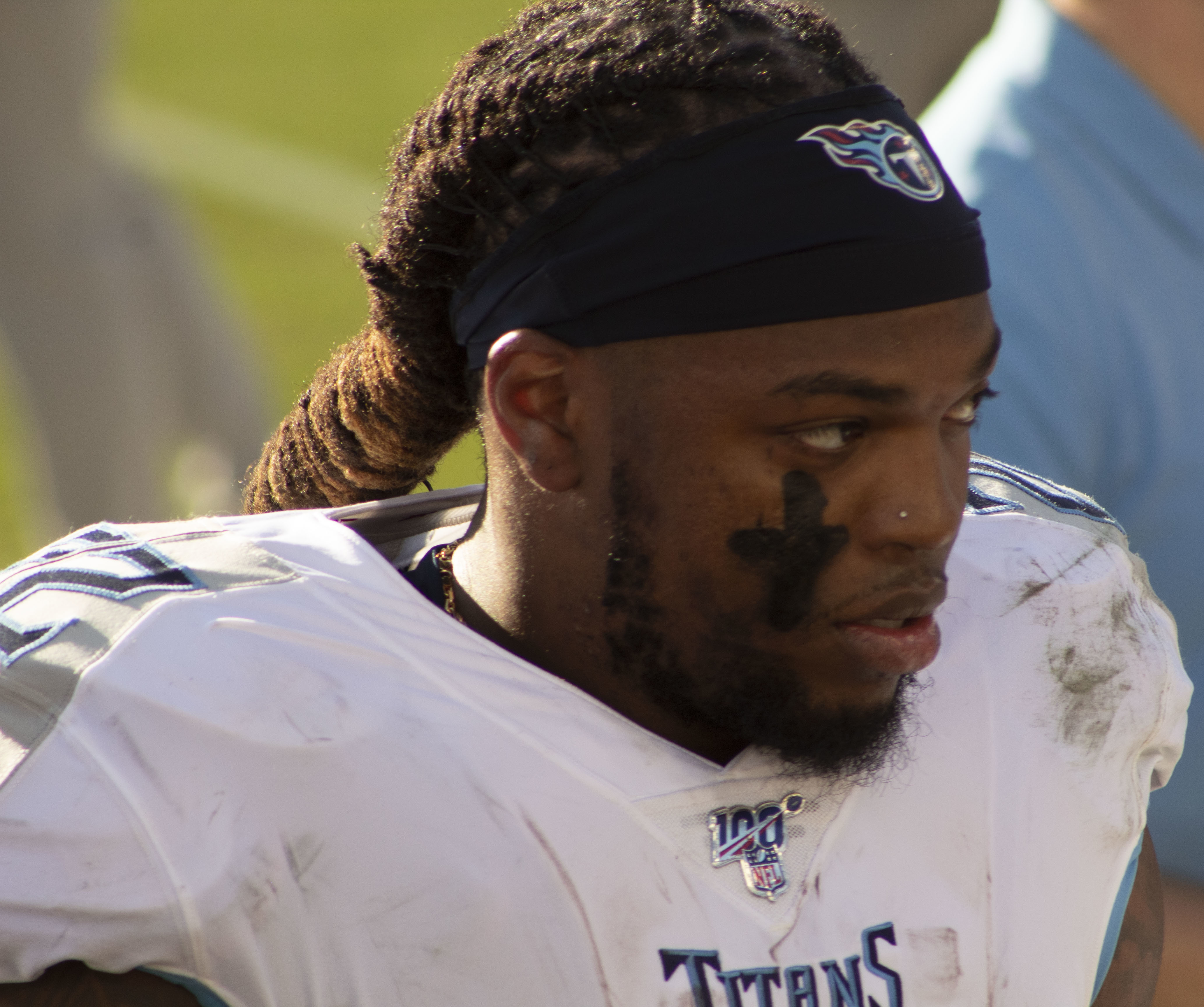 Henry with the Titans on December 8, 2019